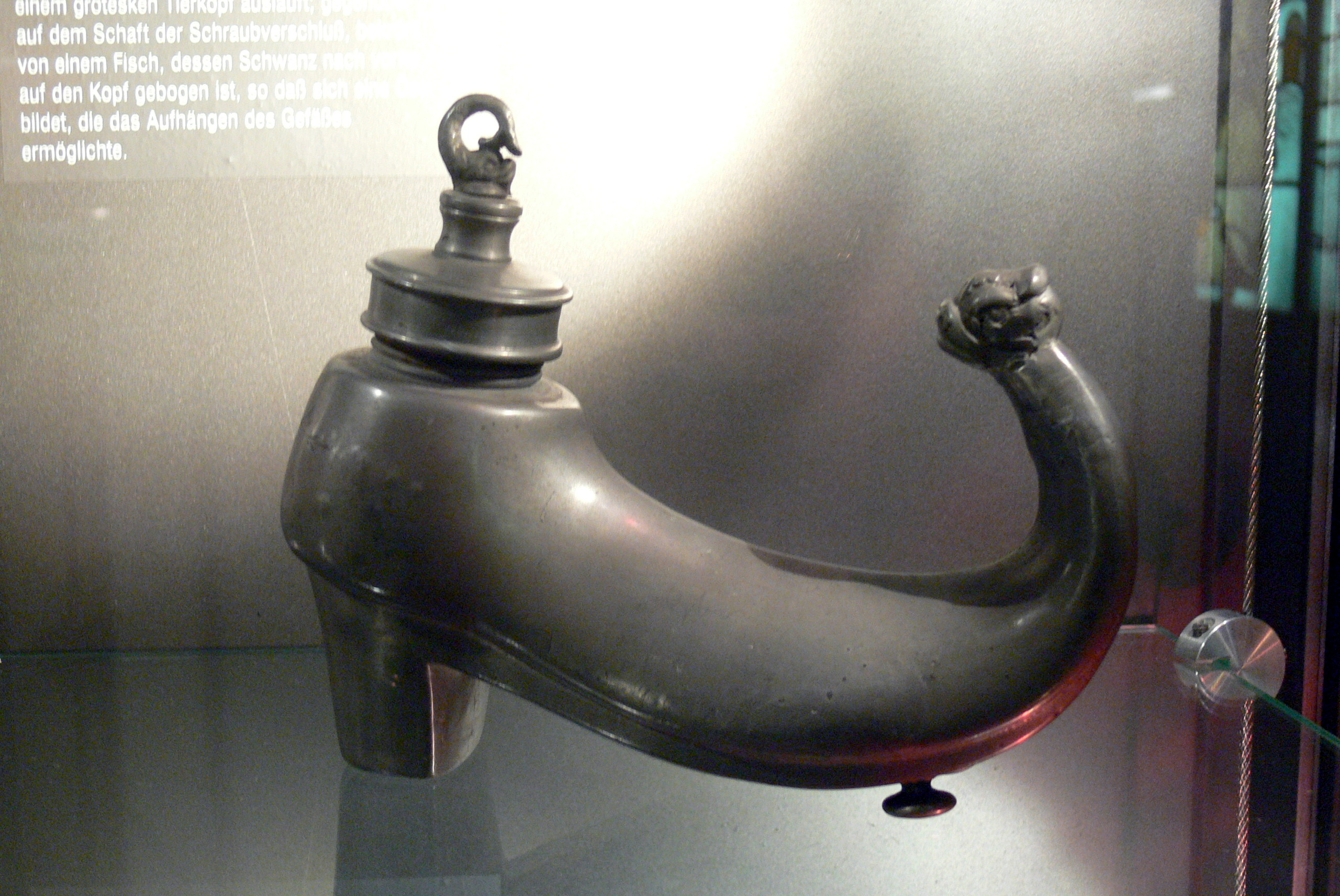 Oberhausmuseum ( Passau ). Pewter pocal ( 1665 ) of the shoemakers guild in Passau.